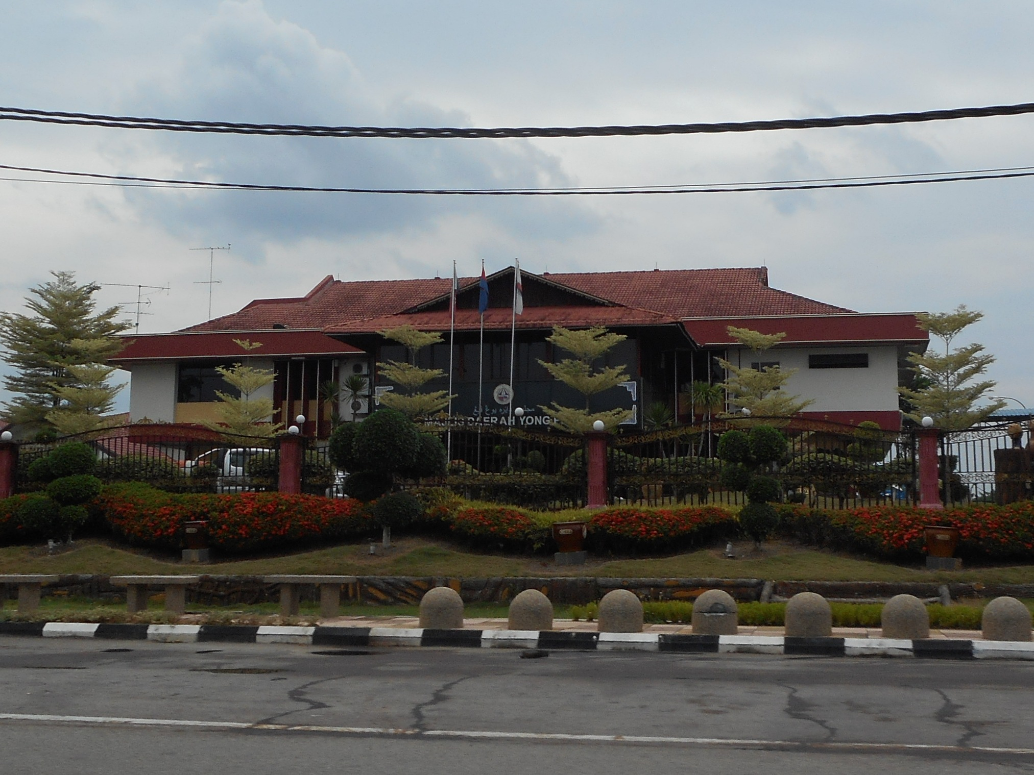 Yong Peng District Council, Yong Peng, Batu Pahat, Johor, Malaysia